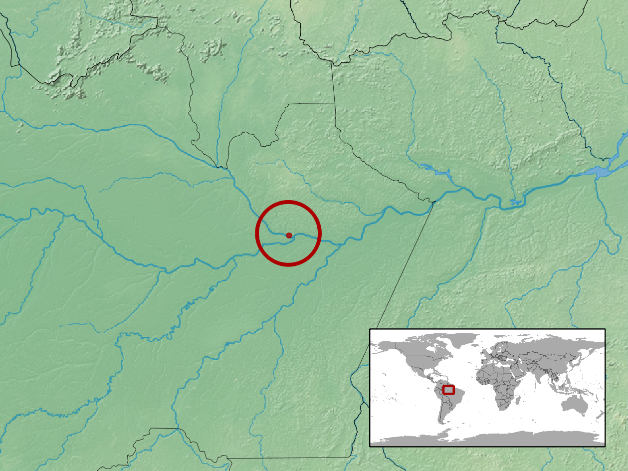 geographic distribution of Amphisbaena slevini (Native: Brazil)